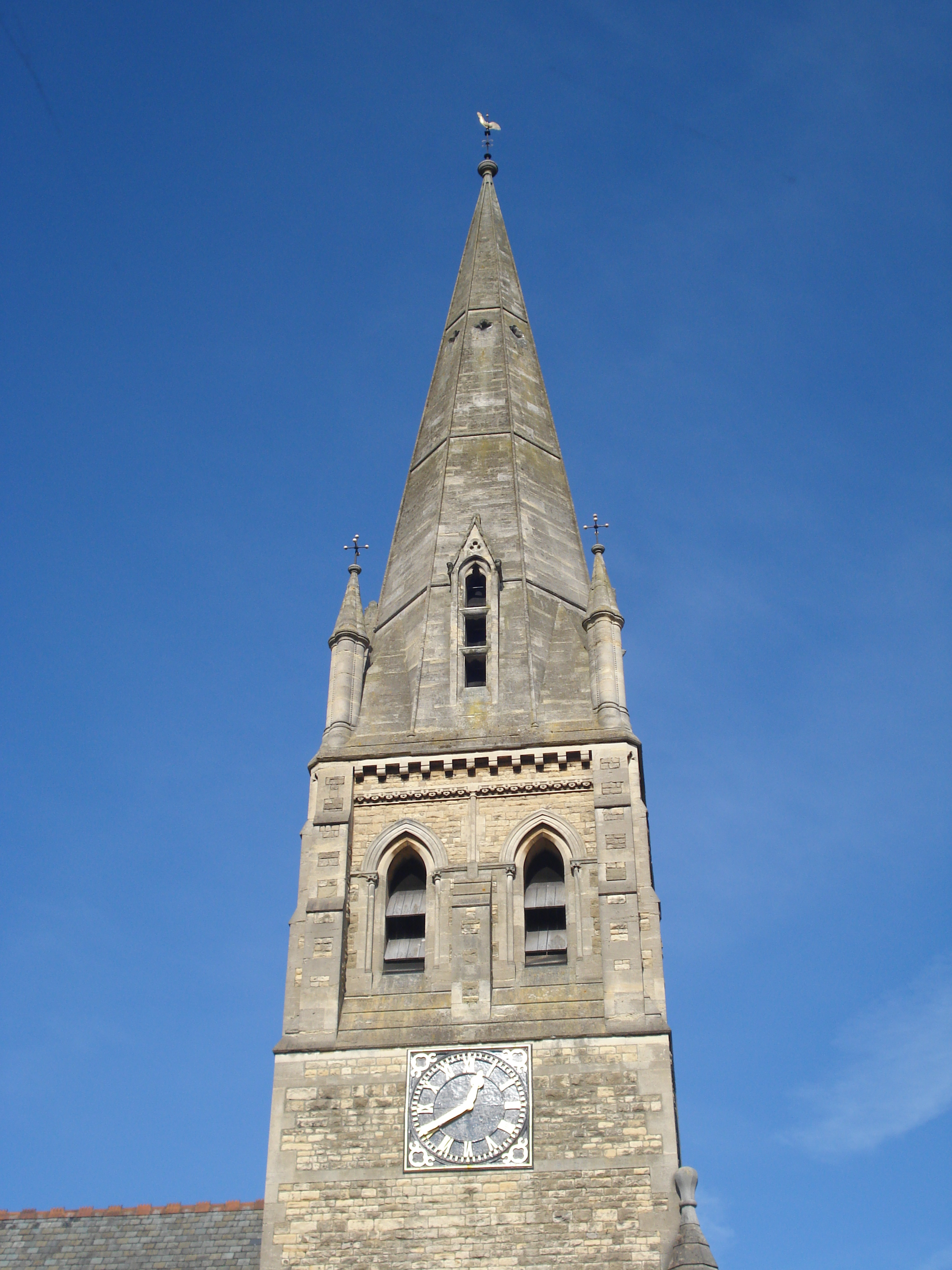 Spire of St Luke's Church, Norfolk Road, Maidenhead in 2008.